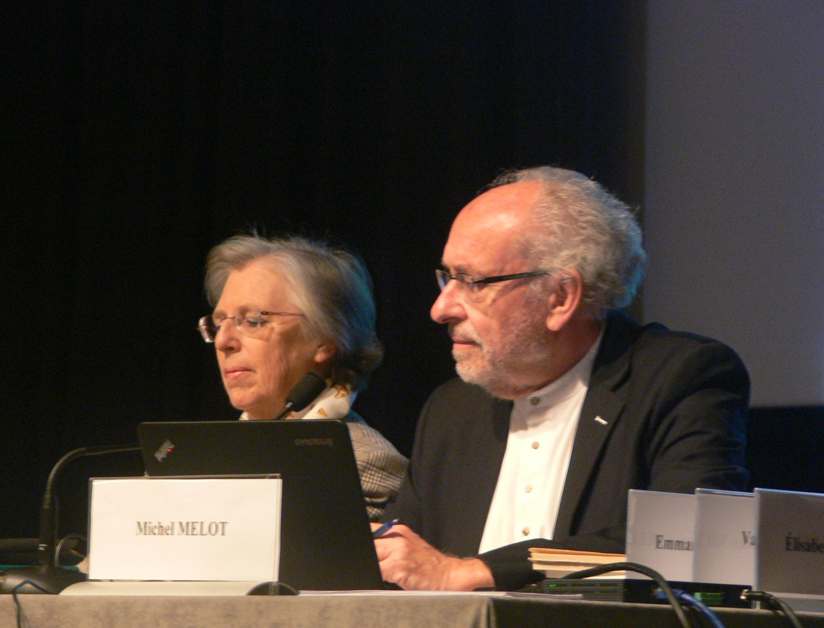 Opening of the Nouvelles de l'estampe Jubilee Conference, by Jacqueline Sanson (directrice générale de la BnF), Antoinette Le Normand-Romain (directeur général de l'INHA) et Michel Melot (président du Comité national de l'estampe)